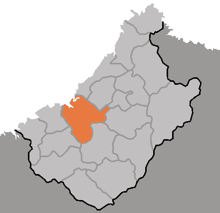 Map of Wiwon, Chagang-do, DPRK, 2006